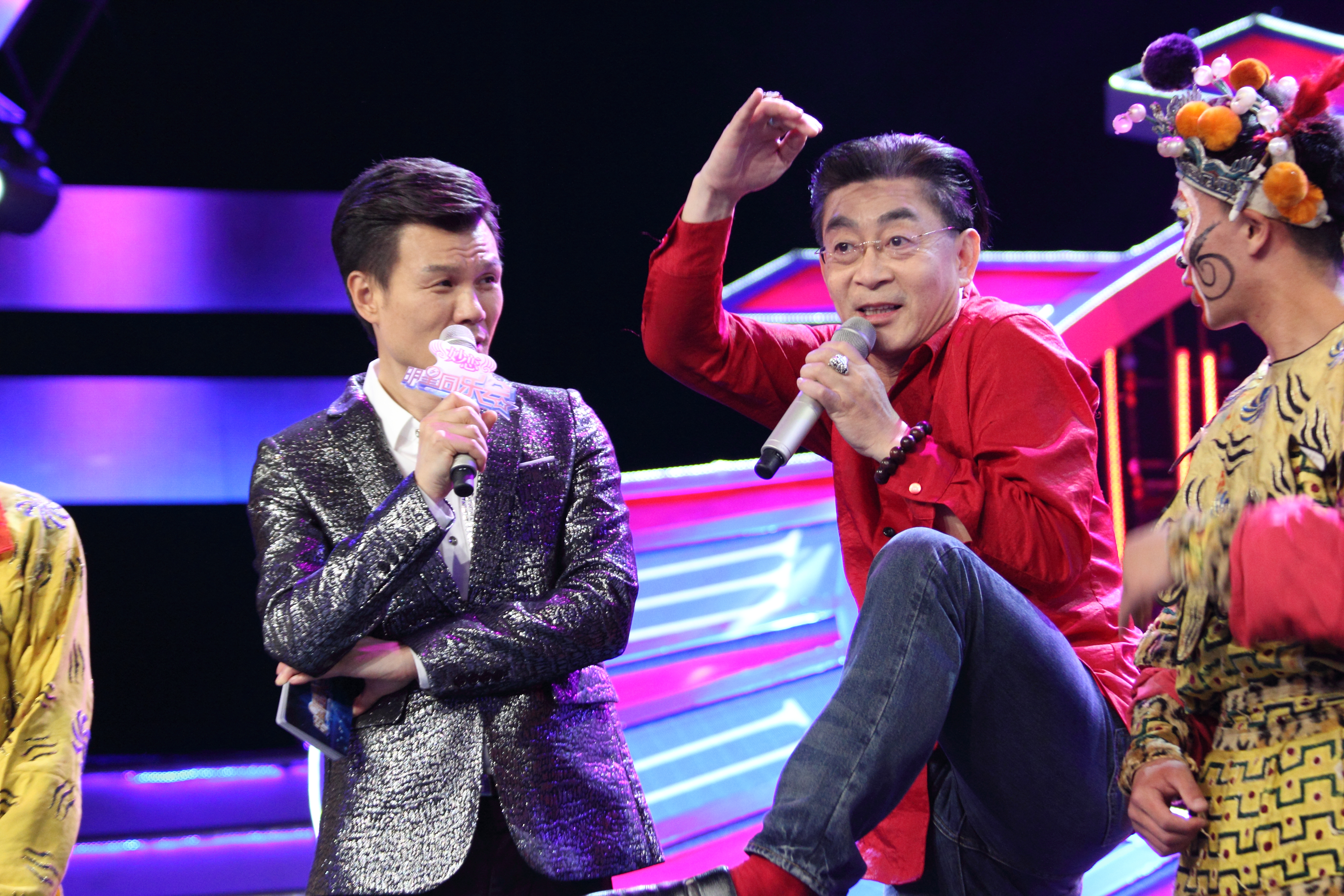 This photo was taken on the studio of Chinese entertainment show Star Reunion. In this episode, four actors of the popular TV drama Journey to the West(1986) were invited.中文（中国大陆）: 这张图片于河北卫视《明星同乐会》的演播室拍摄，这集邀请了1986年电视剧《西游记》的演员和导演。